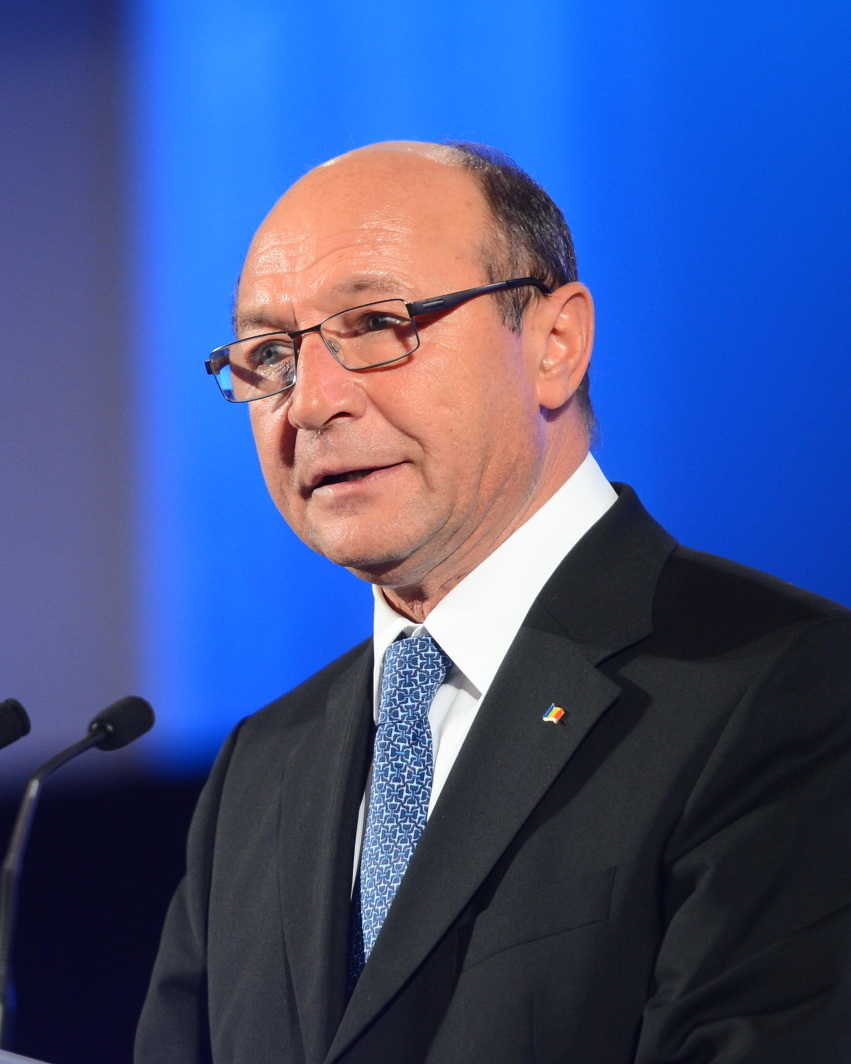 Traian Băsescu